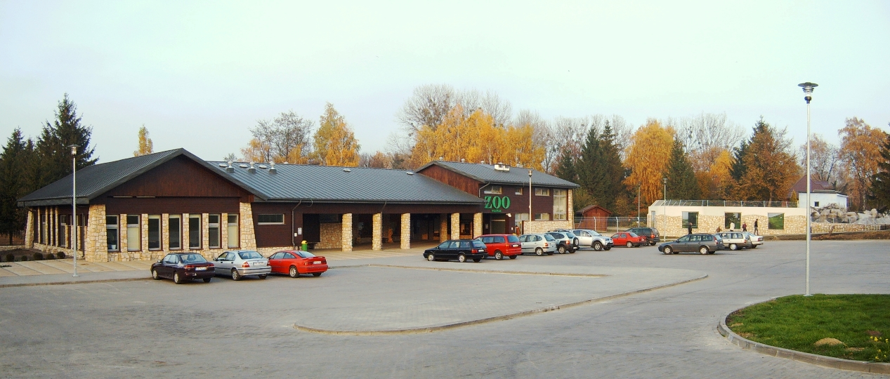 New main building with entrance to Zamość Zoo